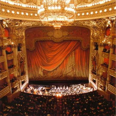 Interior of the Paris Opera, 2006.